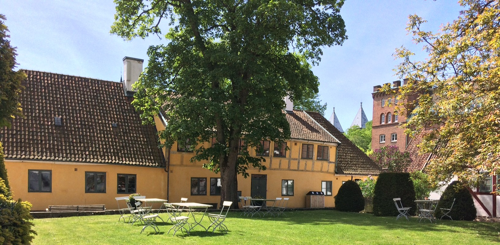 Lindforska huset på Kulturen i Lund, i maj 2017. Universitetsmuseet i Lund har sina utställningslokaler på bottenvåningen.